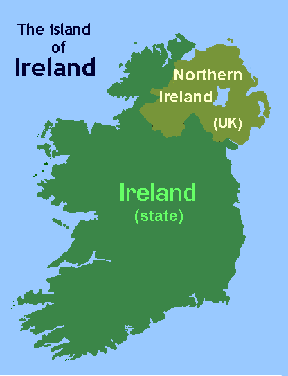 political colours version of basic 'Island of Ireland' map